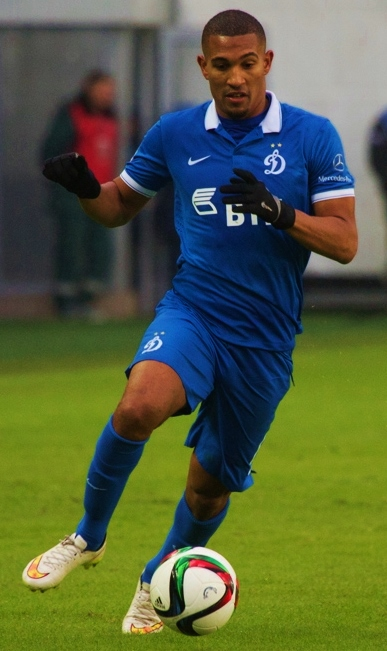 William Vainqueur